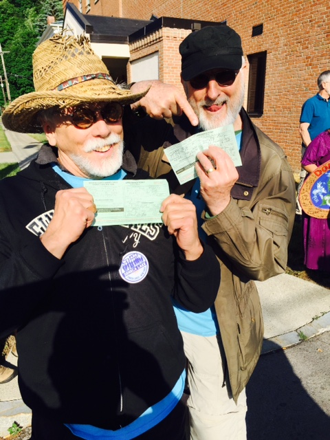 on Monday, June 6, 2016, actors JG Hertzler and Jamie Cromwell participated in an ant-fracking protest. They are pictured here, each holding his "notice to appear" (Photo taken on JG's iPhone).